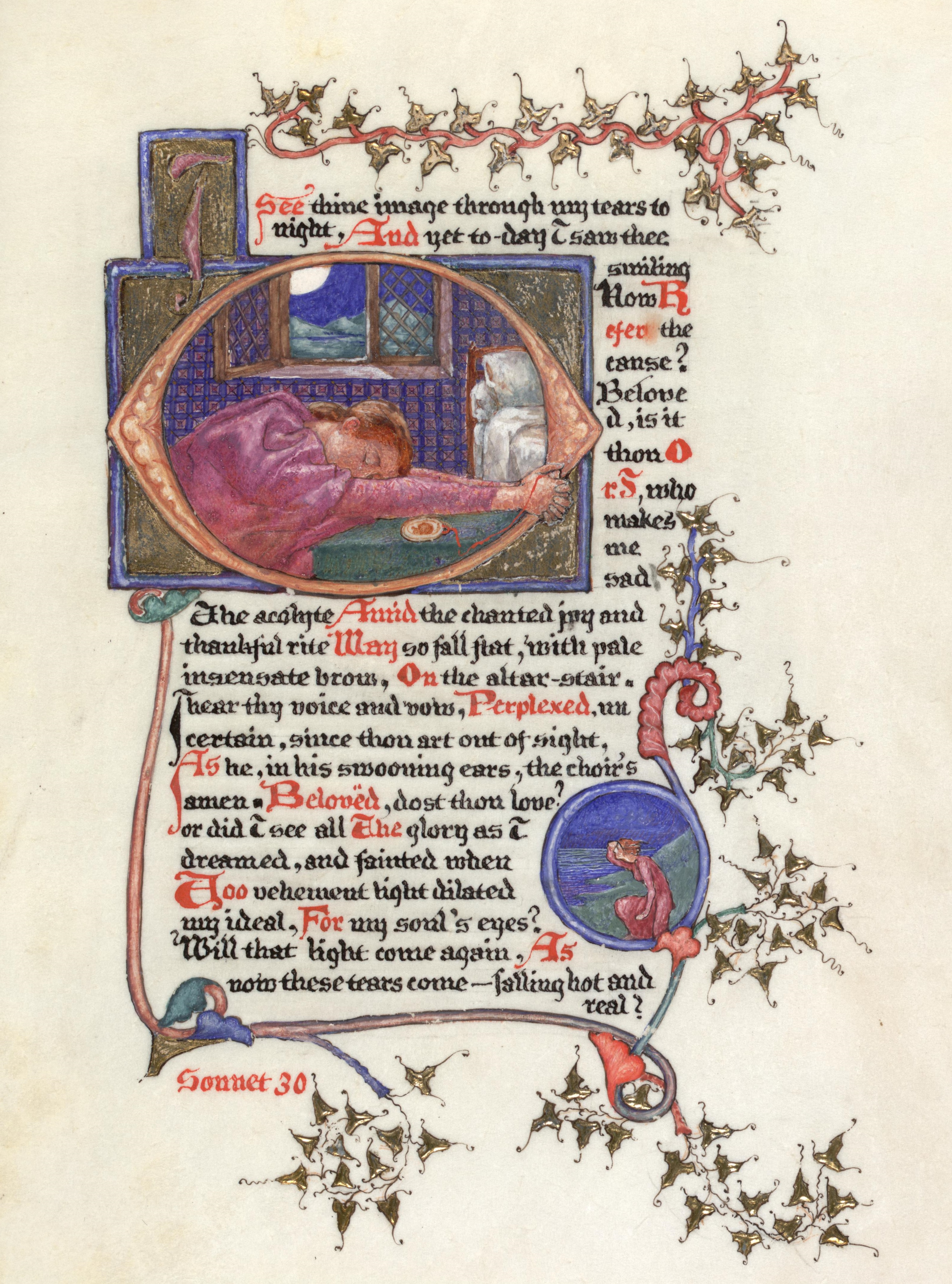 Key Arts and Crafts illuminated manuscript. Published on completion by William Hay in Edinburgh. From 1890 Traquair leased dedicated studio space in the Dean Studio, a disused church (a gap site since the 1950s) next to Drumsheugh Swimming Baths in Lynedoch Place, where her major manuscripts, including ‘Sonnets from the Portuguese’ were created, between 1892 and January 1897. More ....